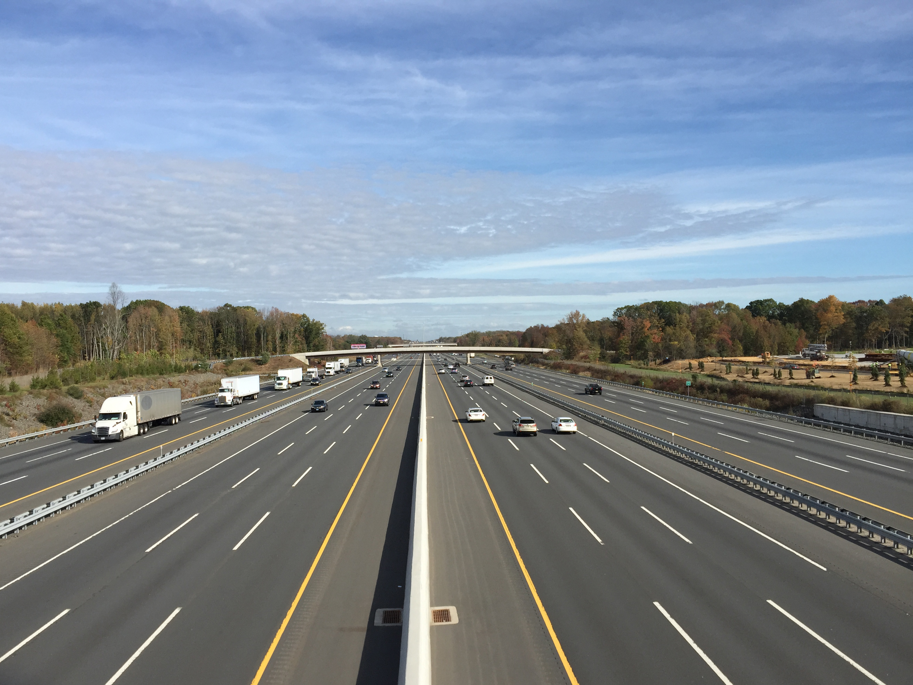 View north along Interstate 95 (New Jersey Turnpike) from the Wyckoff Mills Road overpass in East Windsor Township, Mercer County, New Jersey